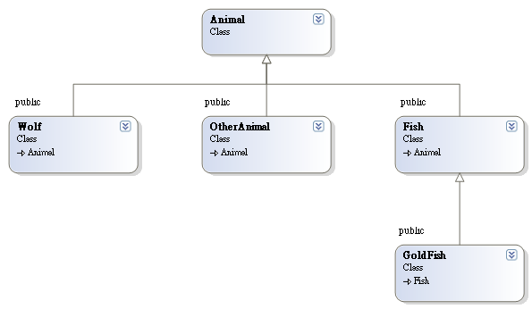 The is a class diagram of C++ programming. It was created by my programming tool (Visual Studio 2008) in July 30, 2009.